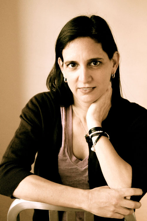 Photograph of Jaime Levy Russell at the headquarters of JLR Interactive. License on Flickr (2011-01-31): CC-BY-2.0 Flickr tags: Jaime, Levy, Russell, 2011